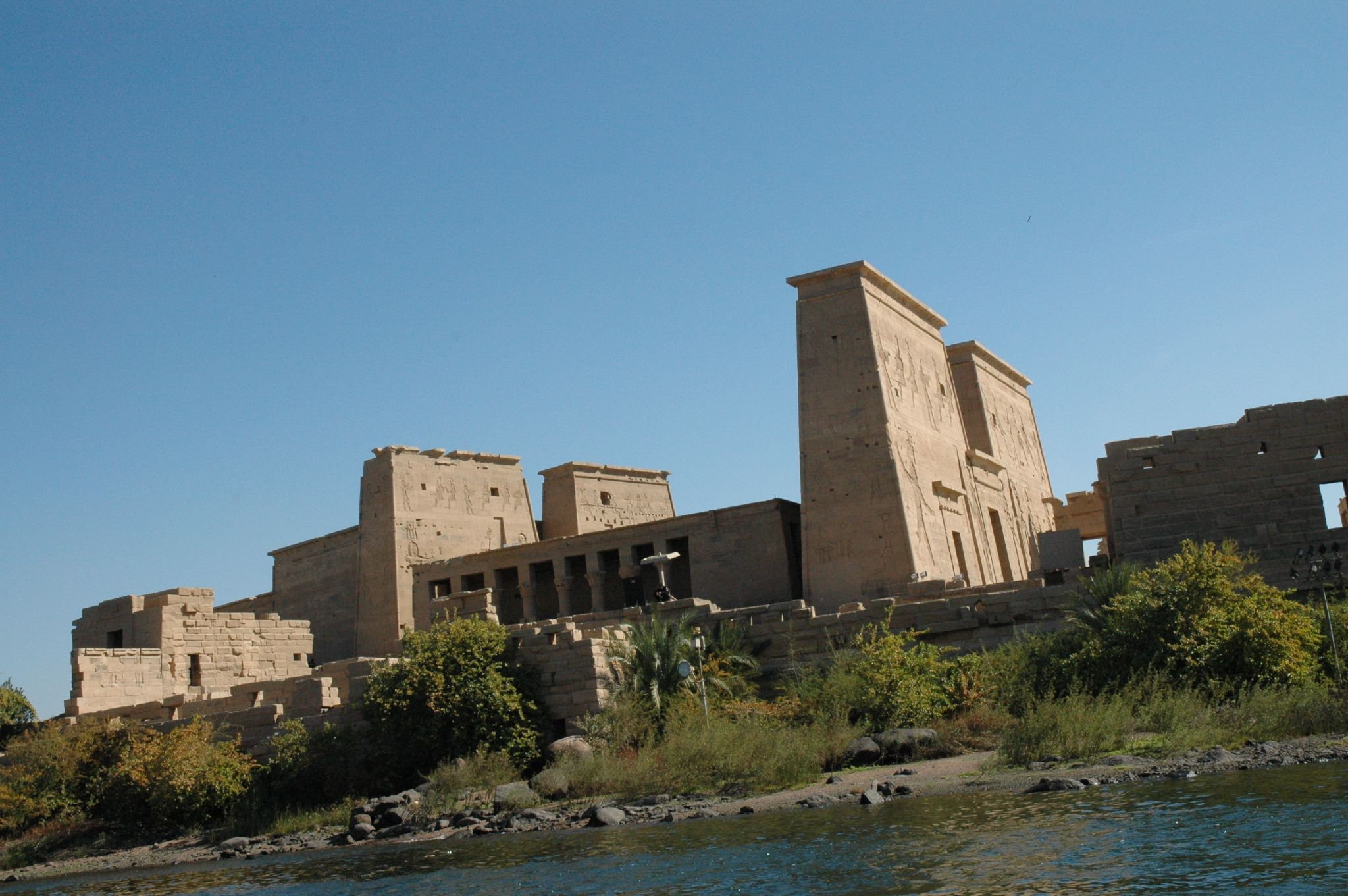 Temple at phile